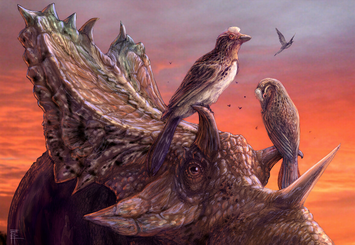 A reconstruction of Mirarce eatoni, illustrating the large body size of this taxon